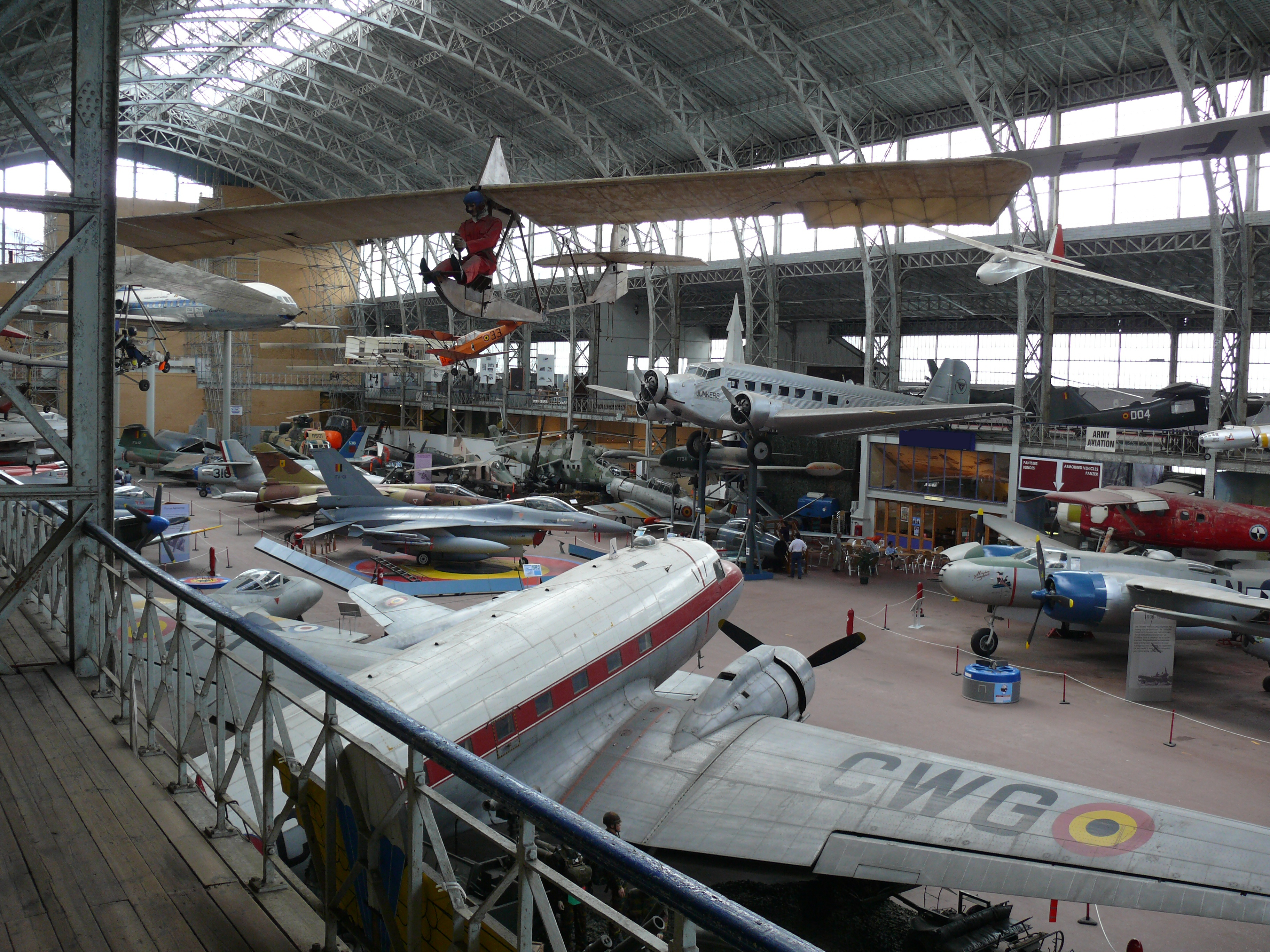 A view of the aerospace hall in the Royal Military Museum in the Jubelpark, Brussels.